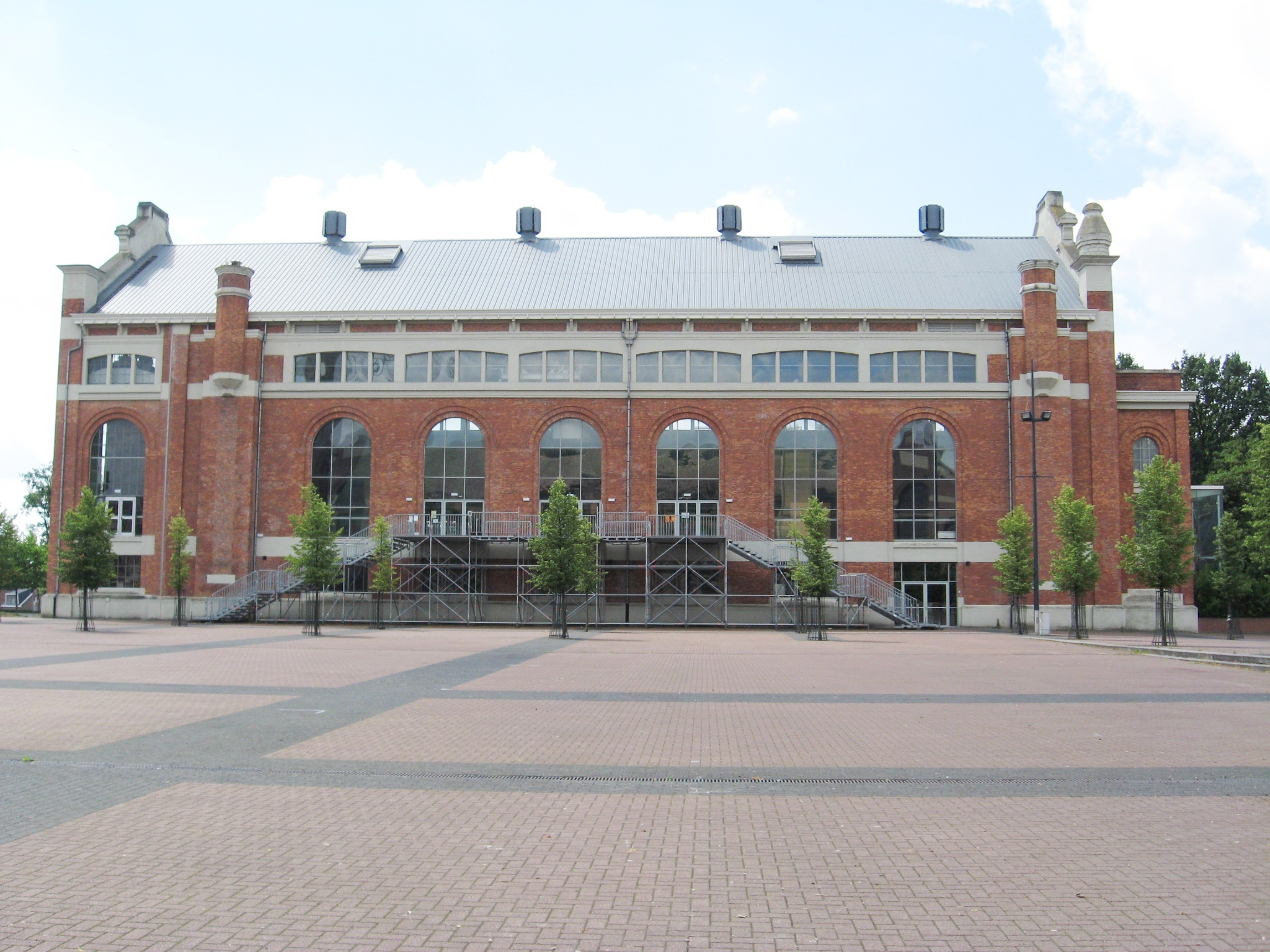 Former electricity power-station (1924) of the mine of Zolder, Heusden-Zolder, Limburg, Belgium